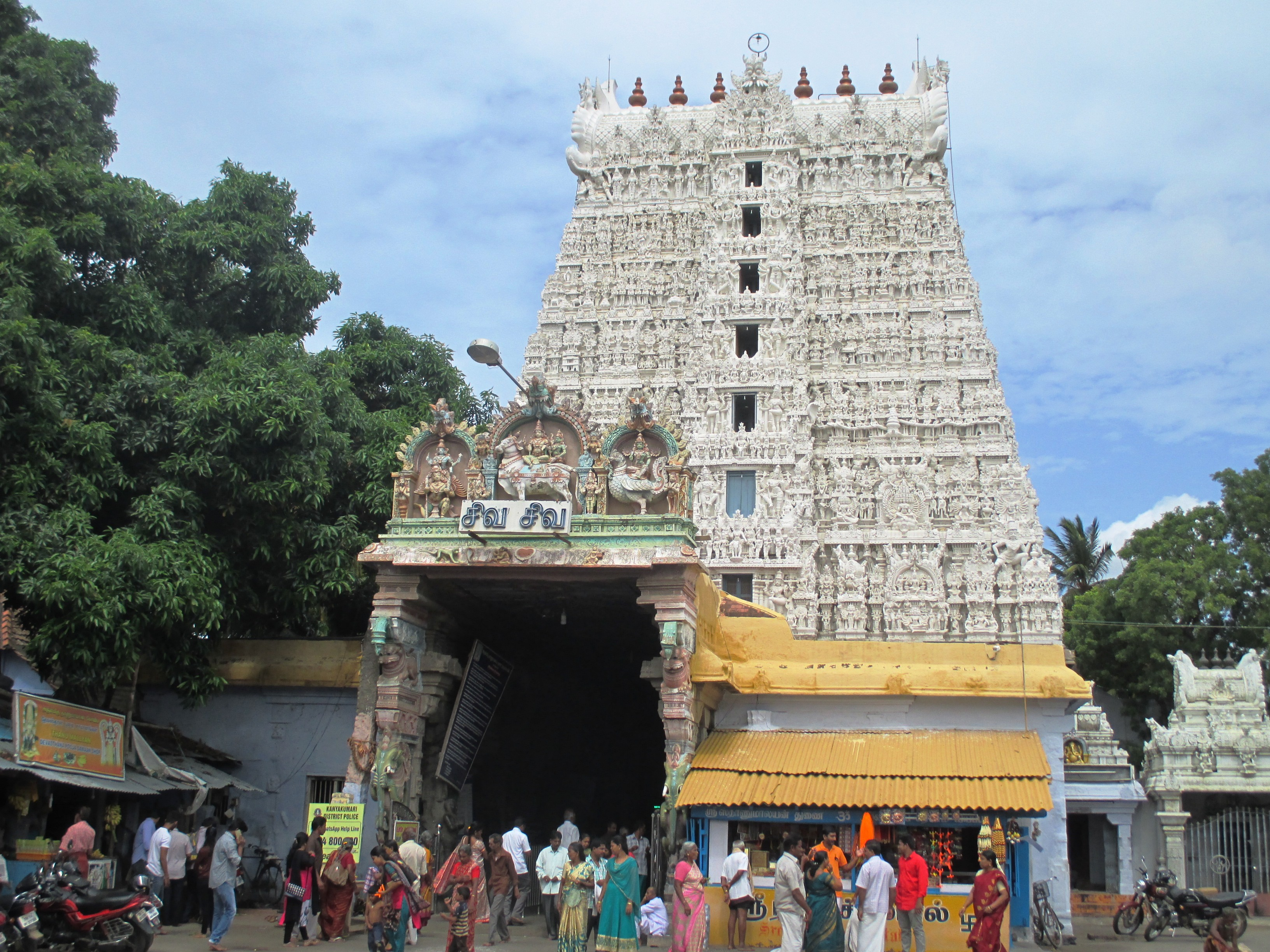 thanum